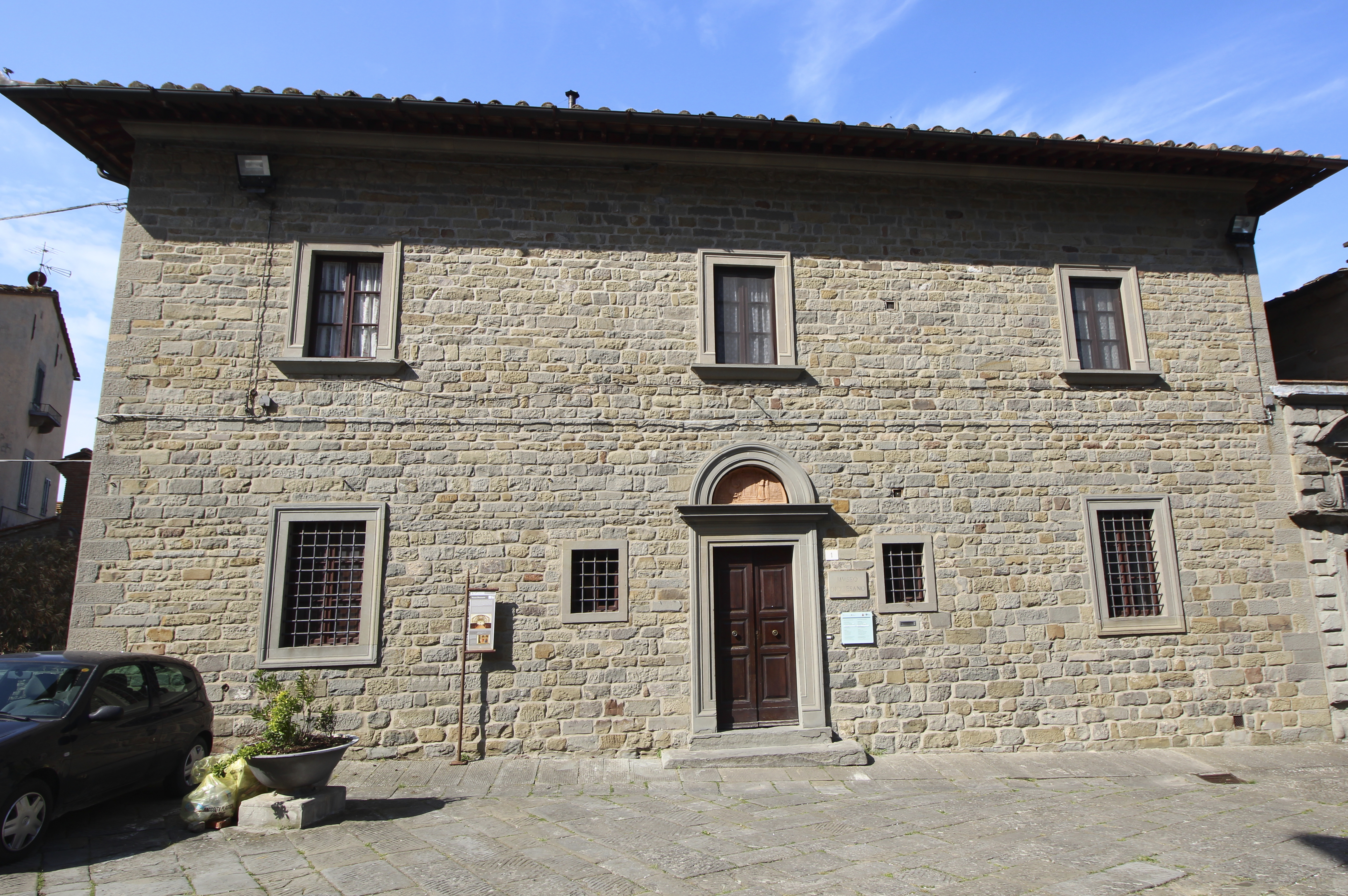 Museum Museo Diocesano, Cortona, Province of Arezzo, Tuscany, Italy